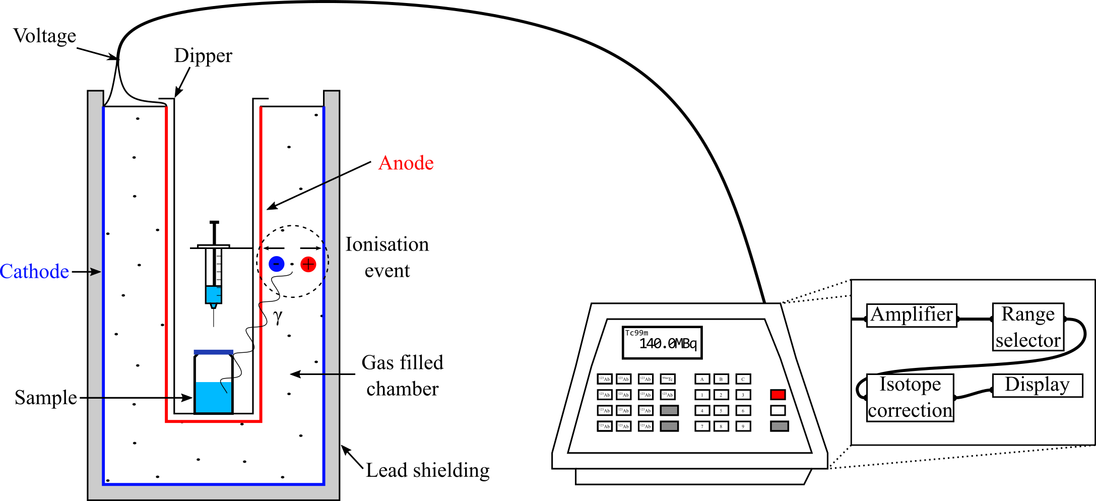 A diagram of a nuclear medicine dose calibrator with the process of detection of an interaction shown.